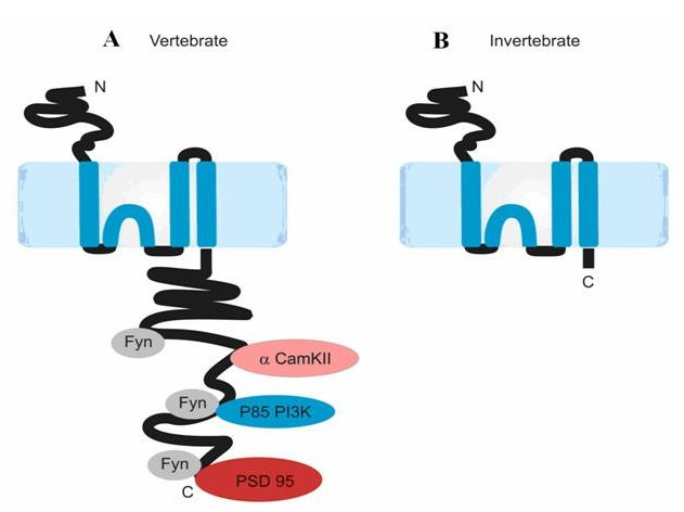 Model of NR2 Subunit. 1.A: Schematic of vertebrate NR2A or NR2B subunits. Note the long intracellular C-terminal domain and relative positioning of particular interacting proteins. PSD-95 is a scaffolding protein, while CaMKII and P13K are kinases that phosphorylate the NMDA receptor. 1.B: Schematic of invertebrate NR2. Note the significantly shorter intracellular C-terminus. Ryan et al. BMC Neuroscience 2008 9:6